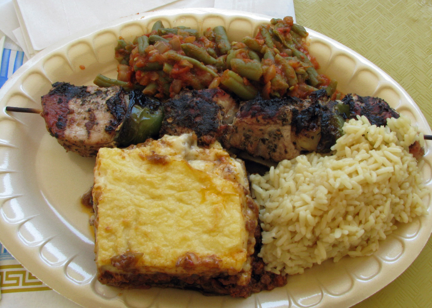 Mousaka - (bottom center) Yahni (String Beans - top center) Pork Souvlaki (Kebab) - (left to right, center Rice Pilaf - (bottom right)